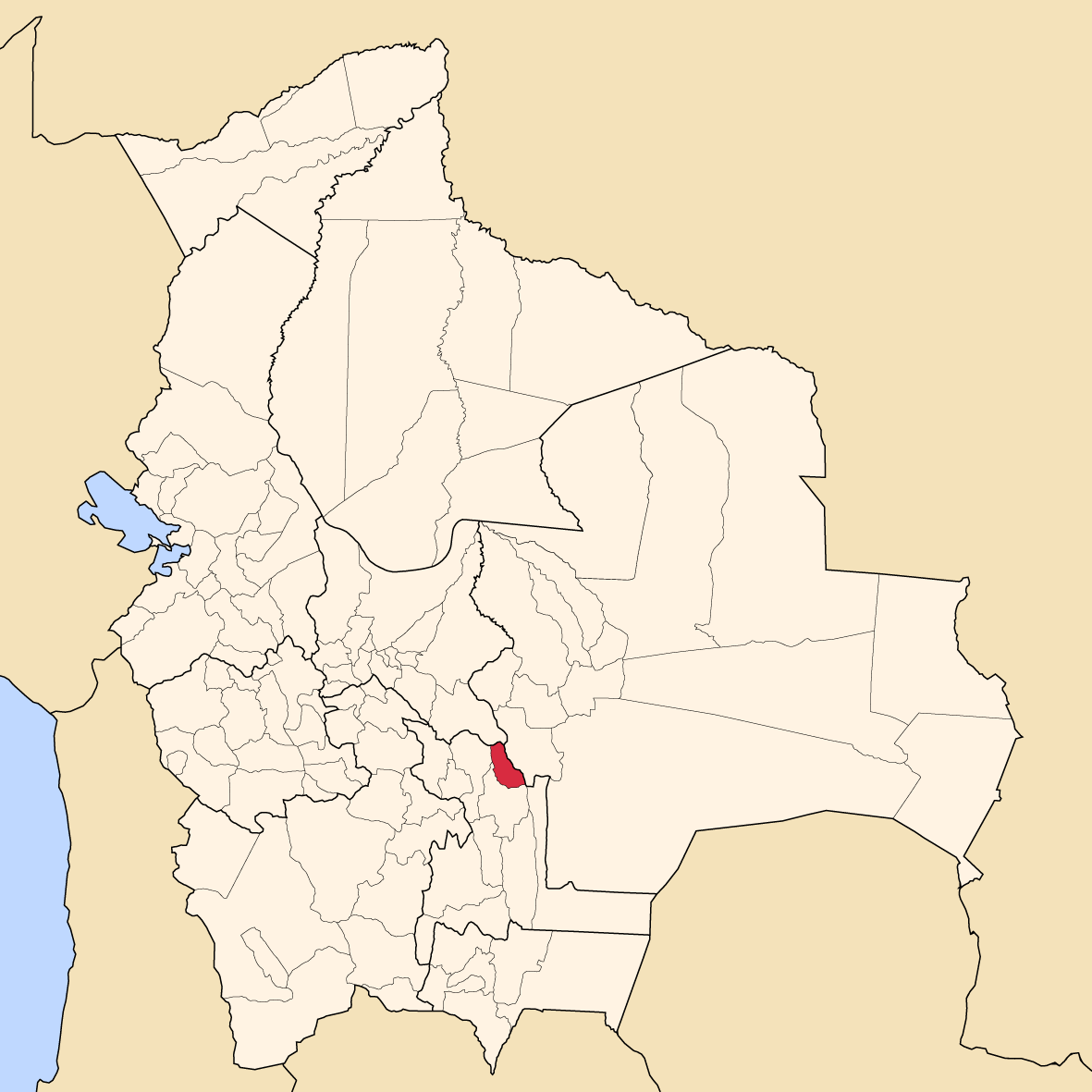 Map of Bolivia showing Belisario Boeto province, Chuquisaca